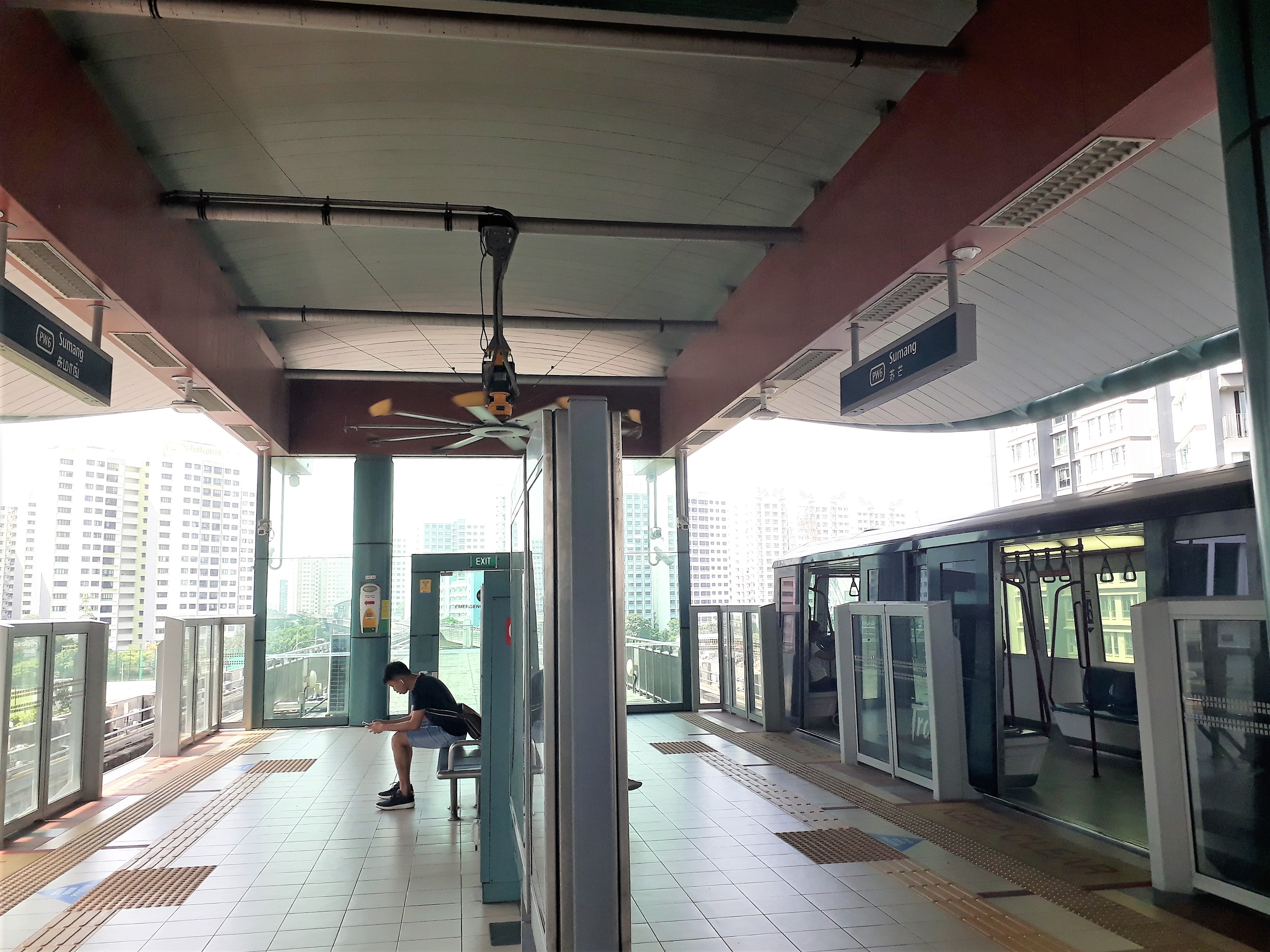 Platform level of Sumang